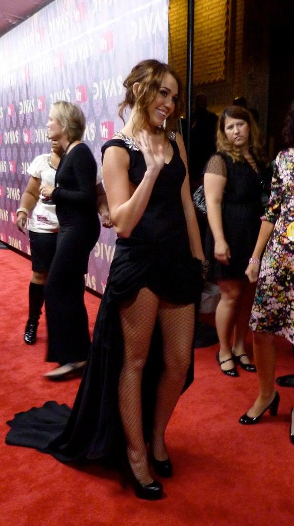 Miley Cyrus on the Red Carpet at Vh1 Divas 2009.